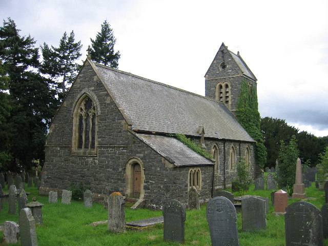 Llanfor Church. This is Llanfor Church. A Mausoleum in the grounds of the church has a tribute to horse that reads: "As to my latter end I go, to seek my Jubilee. I bless the good horse Bendigo, who built this tomb for me. Richard John Lloyd Price. 1887. " One story goes that possibly Bendigo was a race horse, and money from a winning bet on the horse paid for the tomb.